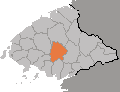 Map of Kusong, Pyongan-pukto, DPRK, 2006